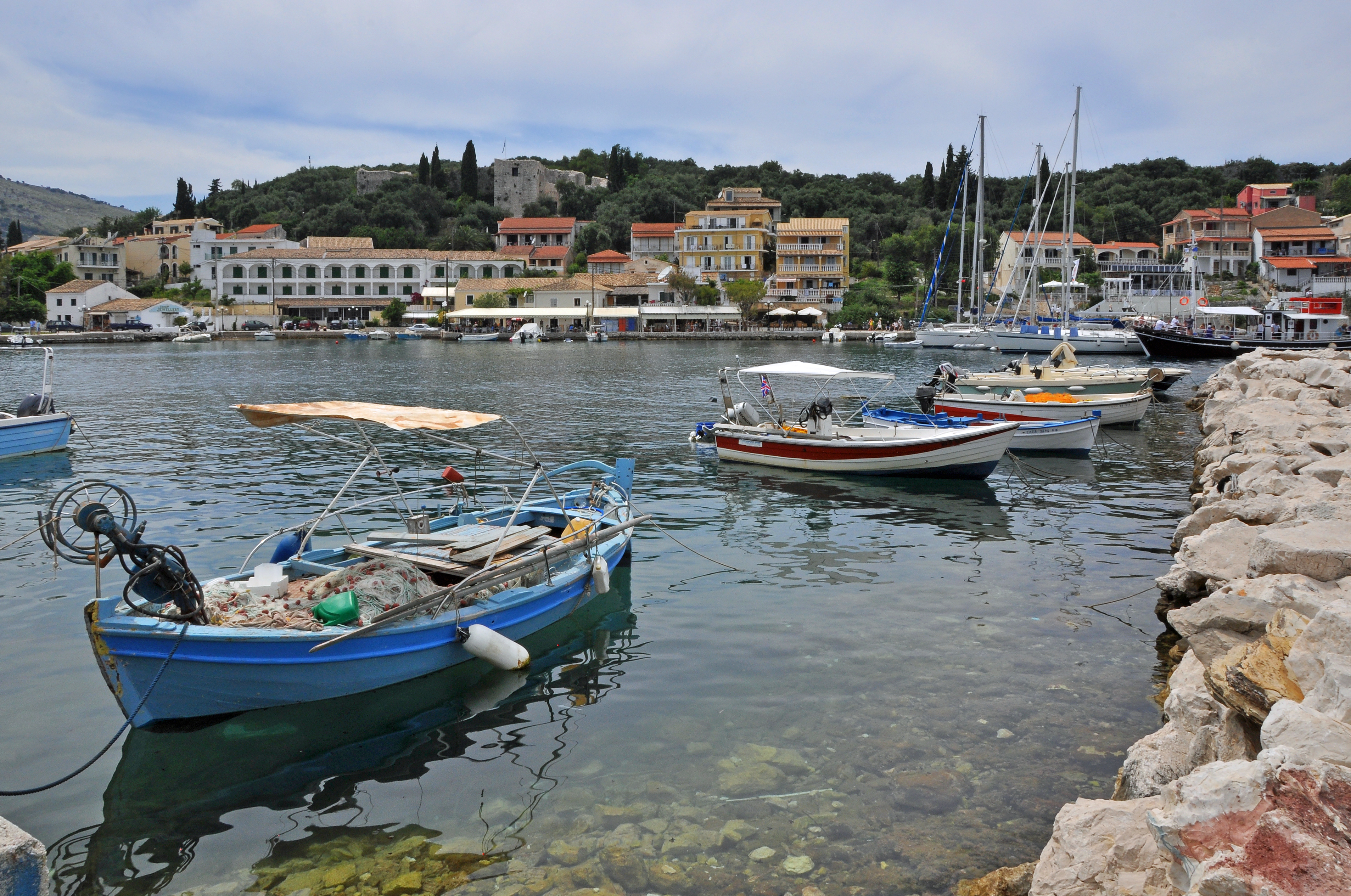 Kassiopi (Corfu island, Greece): the harbor